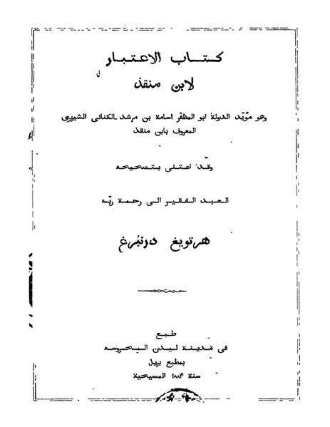 Cover of Kitab al-I'tibar, Hartwig Derenbourg edition, Leiden 1886?